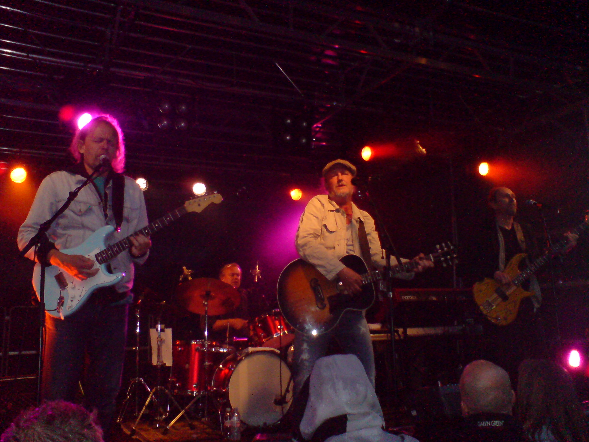 The Swedish rock band Eldkvarn performing in Trädgårdsföreningen in Gothenburg on July 10, 2009